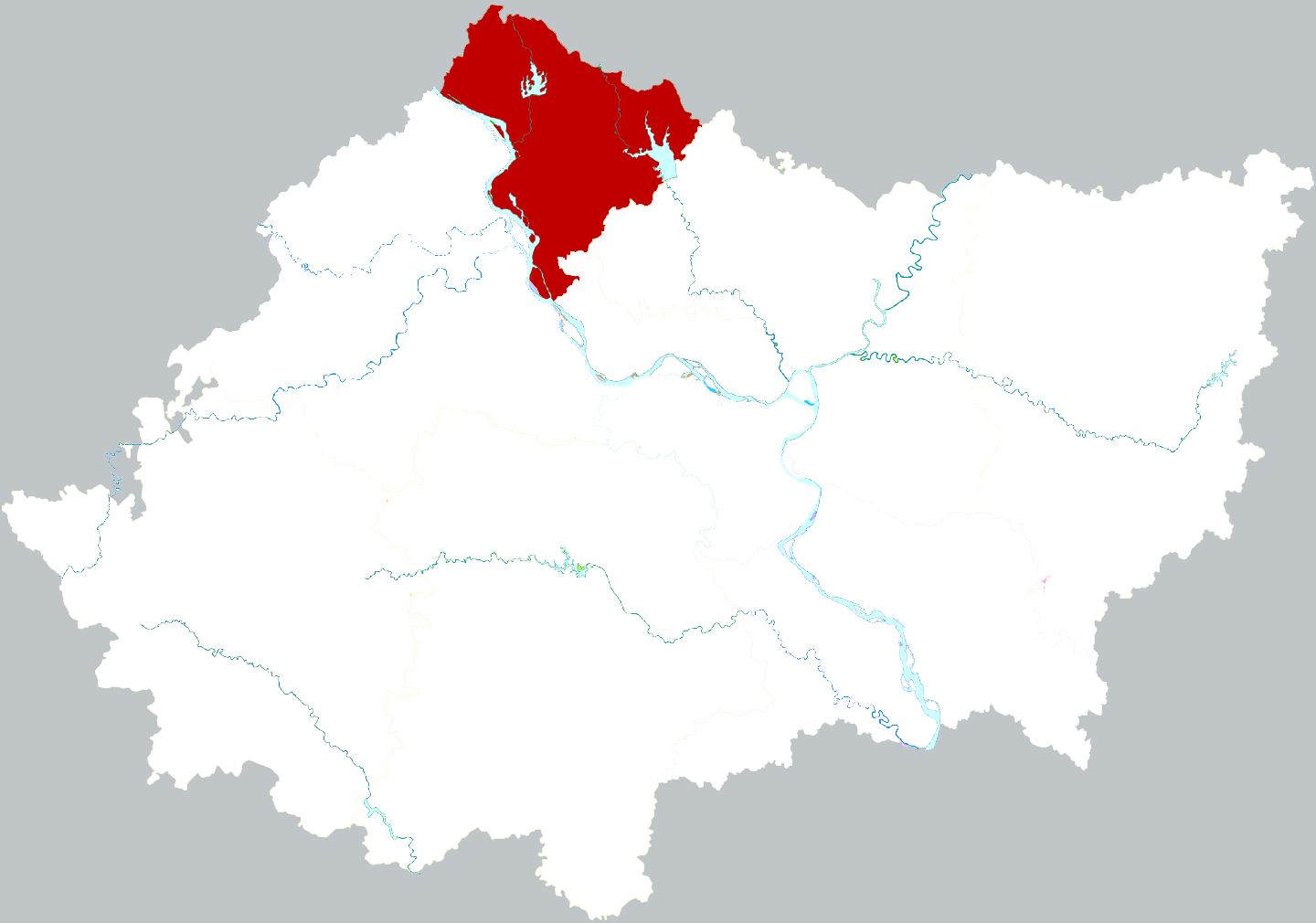 Location of Laohekou county-level city in Xiangyang city, China